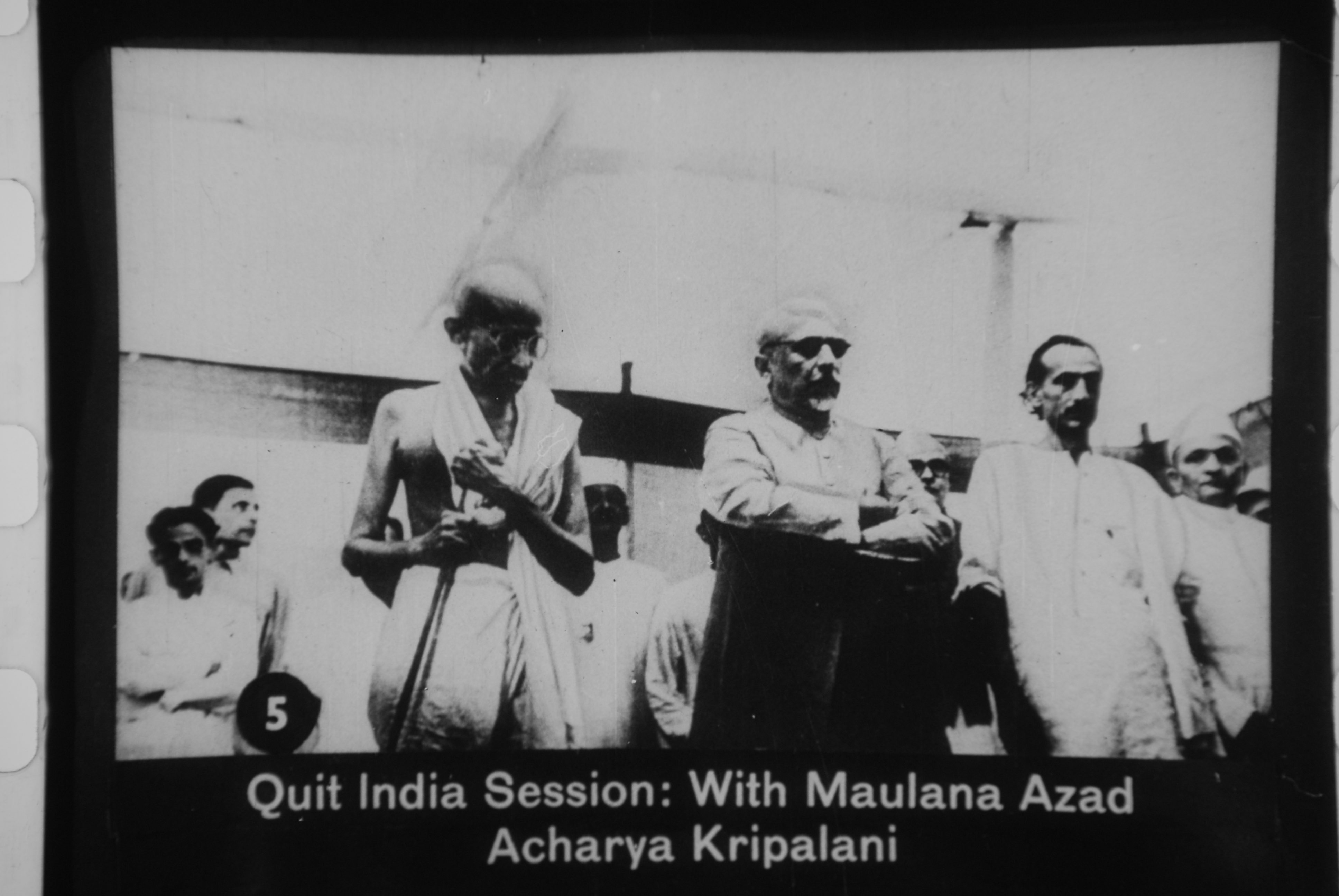 Gandhi with Maulana Azad and Acharya Kripalani at the Quit India Session, August 1942.